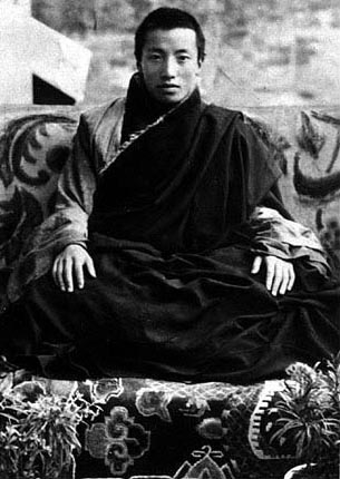 The Sixth Dzogchen Drubwang, Jikdrel Jangchub Dorje b.1935 - d.1959